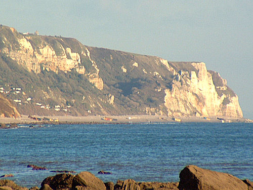 Coastline east of Branscombe Mouth, Devon, with beach showing container debris from MSC Napoli, 25/01/2007. Photo by User:Tearlach.